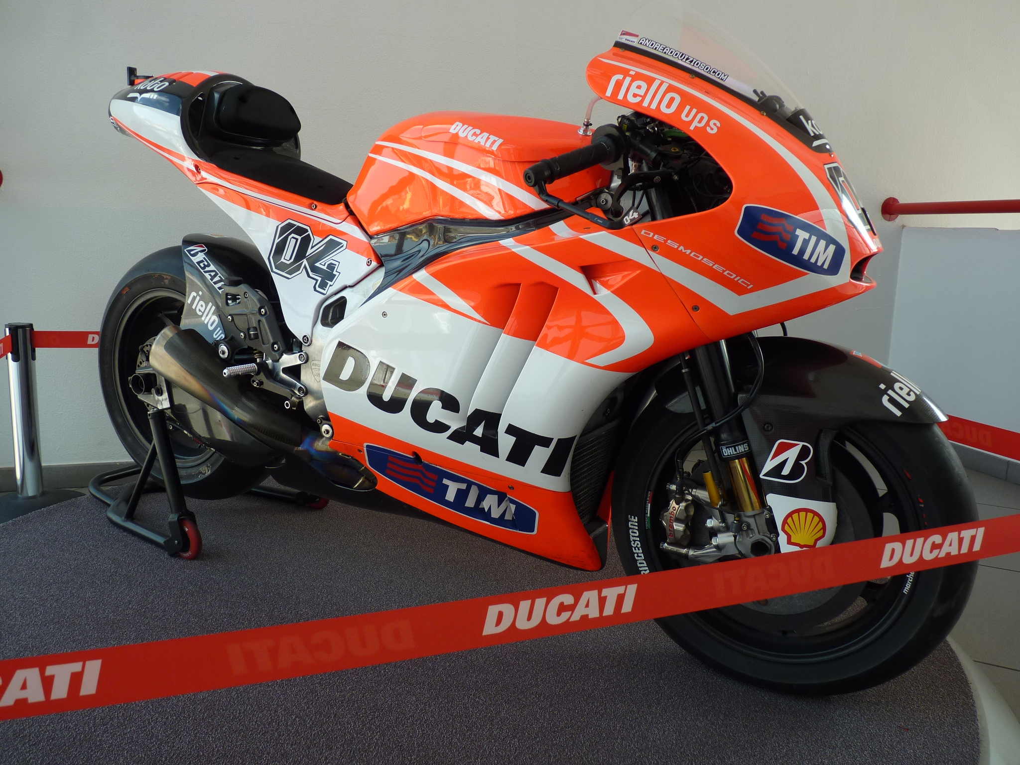 Andrea Dovizioso's Ducati Desmosedici GP13. Bologna, Museo Ducati.